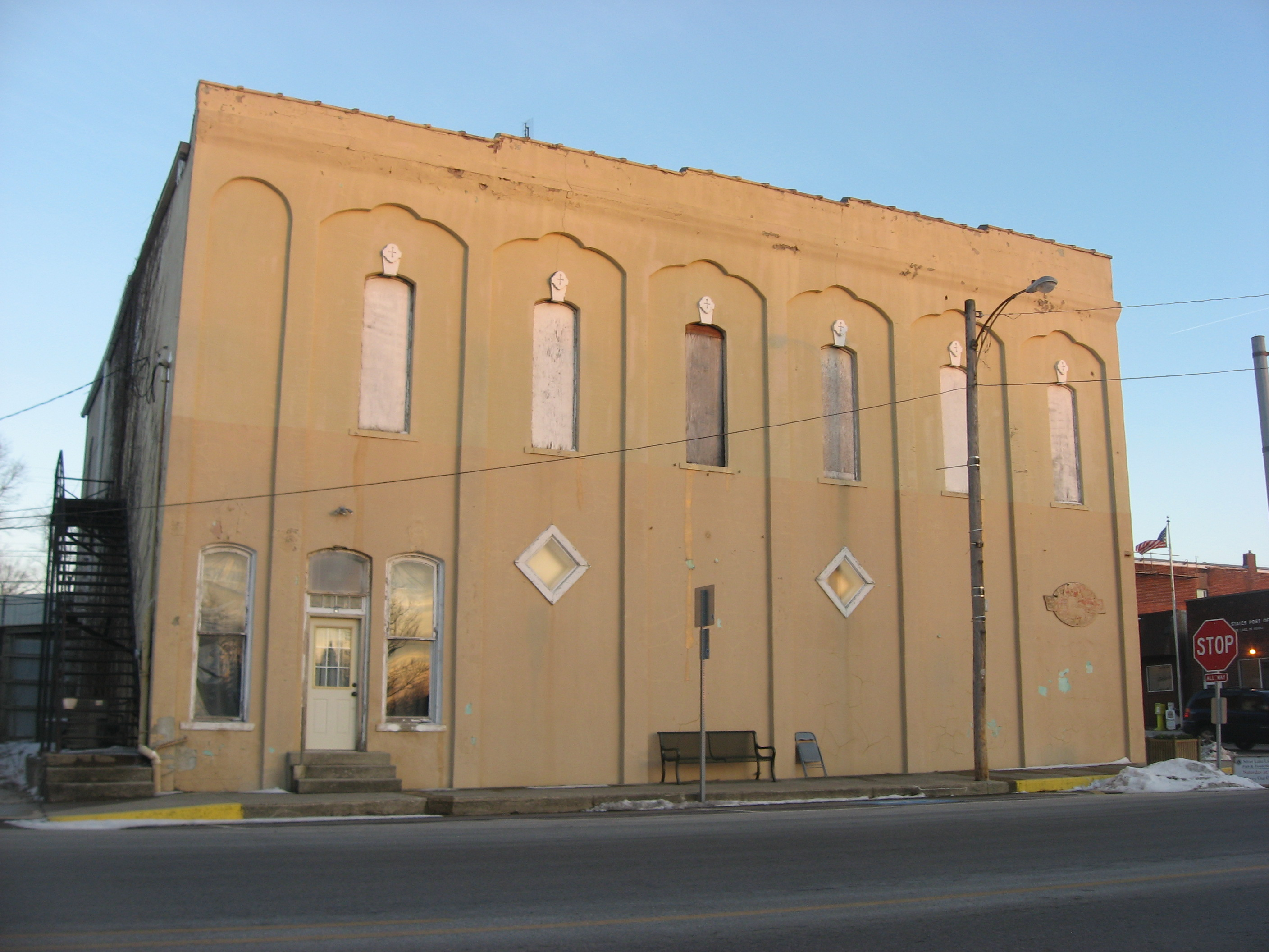 Western side of the building at 101 E. Main Street (State Road 14) seen from N. Jefferson Street (State Road 15) in Silver Lake, Indiana, United States. Built in 1885, it is a part of the Silver Lake Historic District, a historic district that is listed on the National Register of Historic Places.